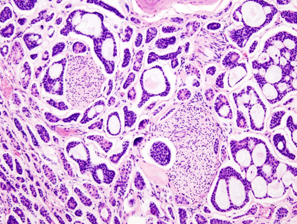 Histopathological image of adenoid cystic carcinoma of the salivary gland. Hematoxylin & eosin stain.